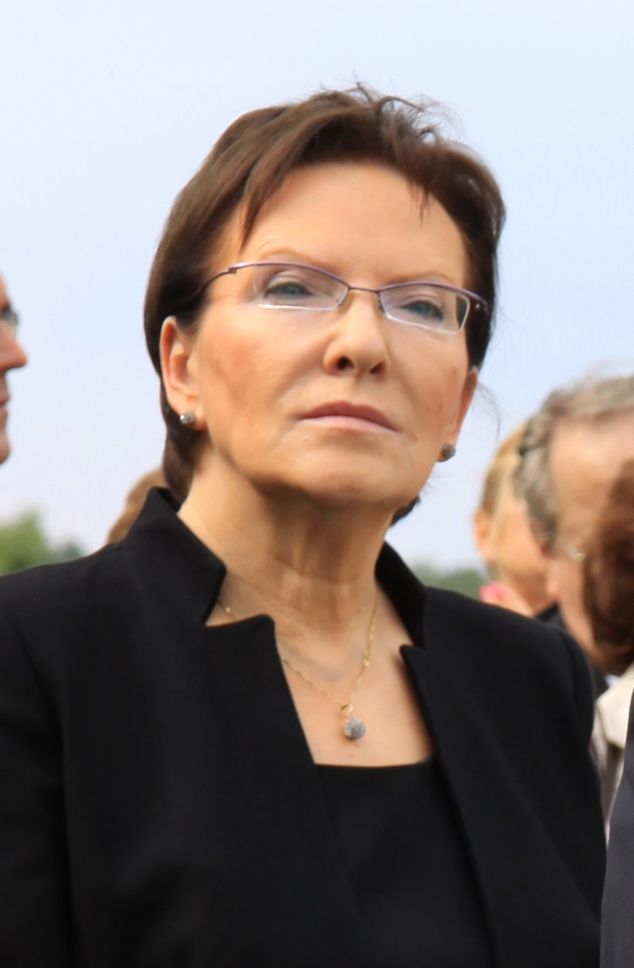 Ewa Kopacz - Polish pediatrician doctor, of the local government, politician. Since 2001 Member of the Parliament of IV, V, VI and VII of the term, in 2007-2011 the Minister of Health in the first government of Donald Tusk's Civic Platform party vice-president. Since 2011, the Marshal of the Sejm seventh term. Funeral of Mr Konstanty Miodowicz, Busko-Zdrój, 29 August 2013